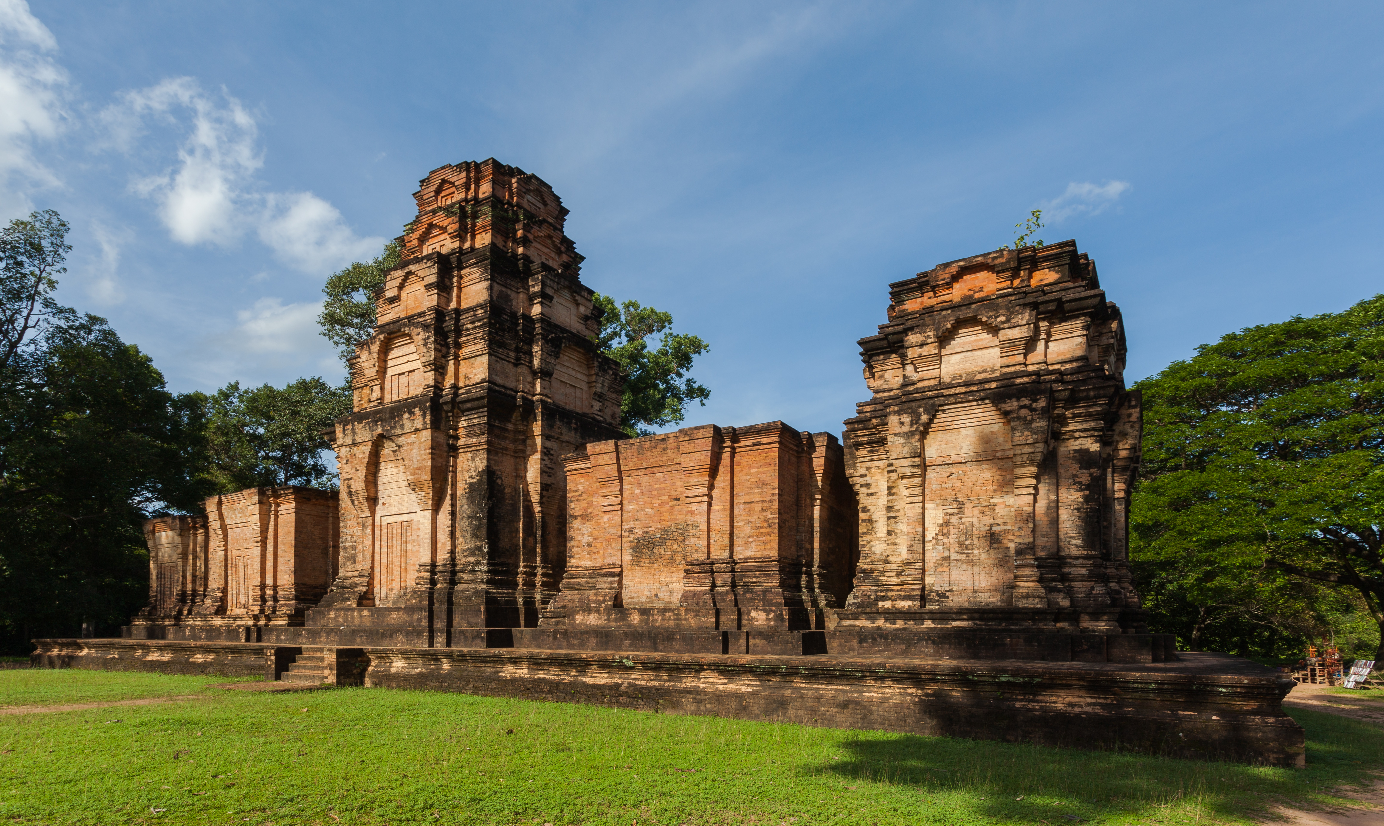 Prasat Kravan, Angkor, Cambodia